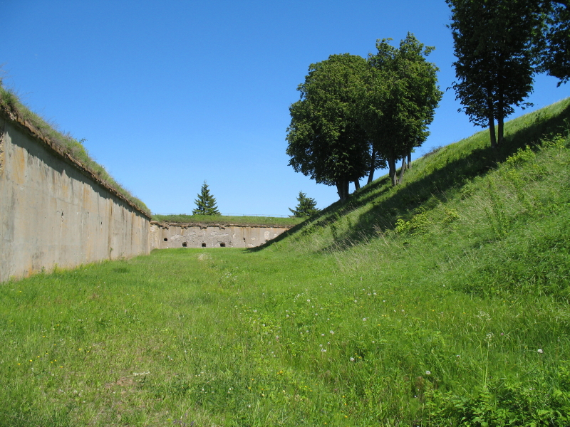 Kaunas Fortress' Ninth Fort.